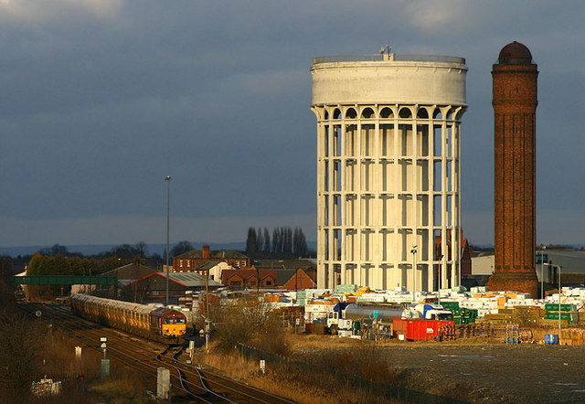 Water Towers, Goole, East Riding of Yorkshire, England.A brief burst of sunlight illuminates the "Salt and Pepper Pot" water towers. Note the sand train waiting to leave the siding.